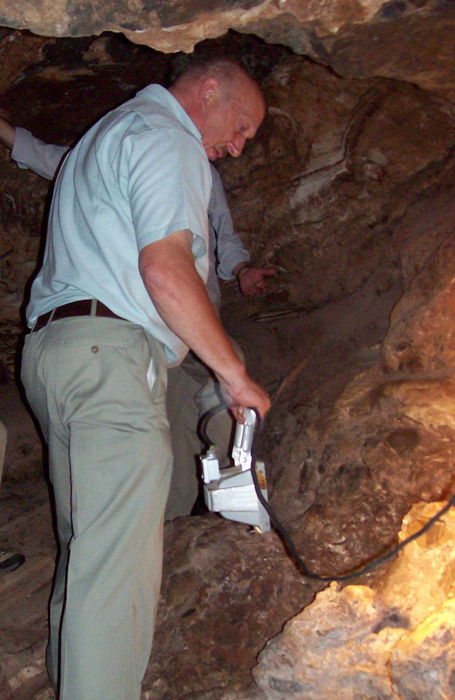 Paleoanthropologist Ronald J. Clarke close to Little Foot